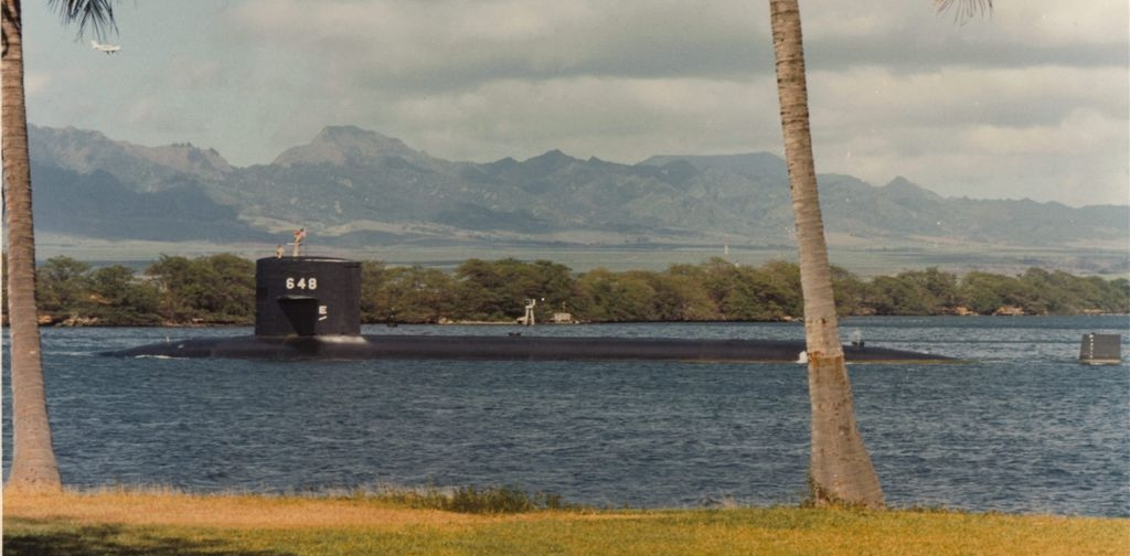 Another photo behind the palm trees that every submarine seems to pass is the fate of the Aspro (SSN-648), as she exits Pearl Harbor, circa 1980. Note the small private plane above the trees. Official US Navy photo courtesy of Wendell Royce McLaughlin Jr.